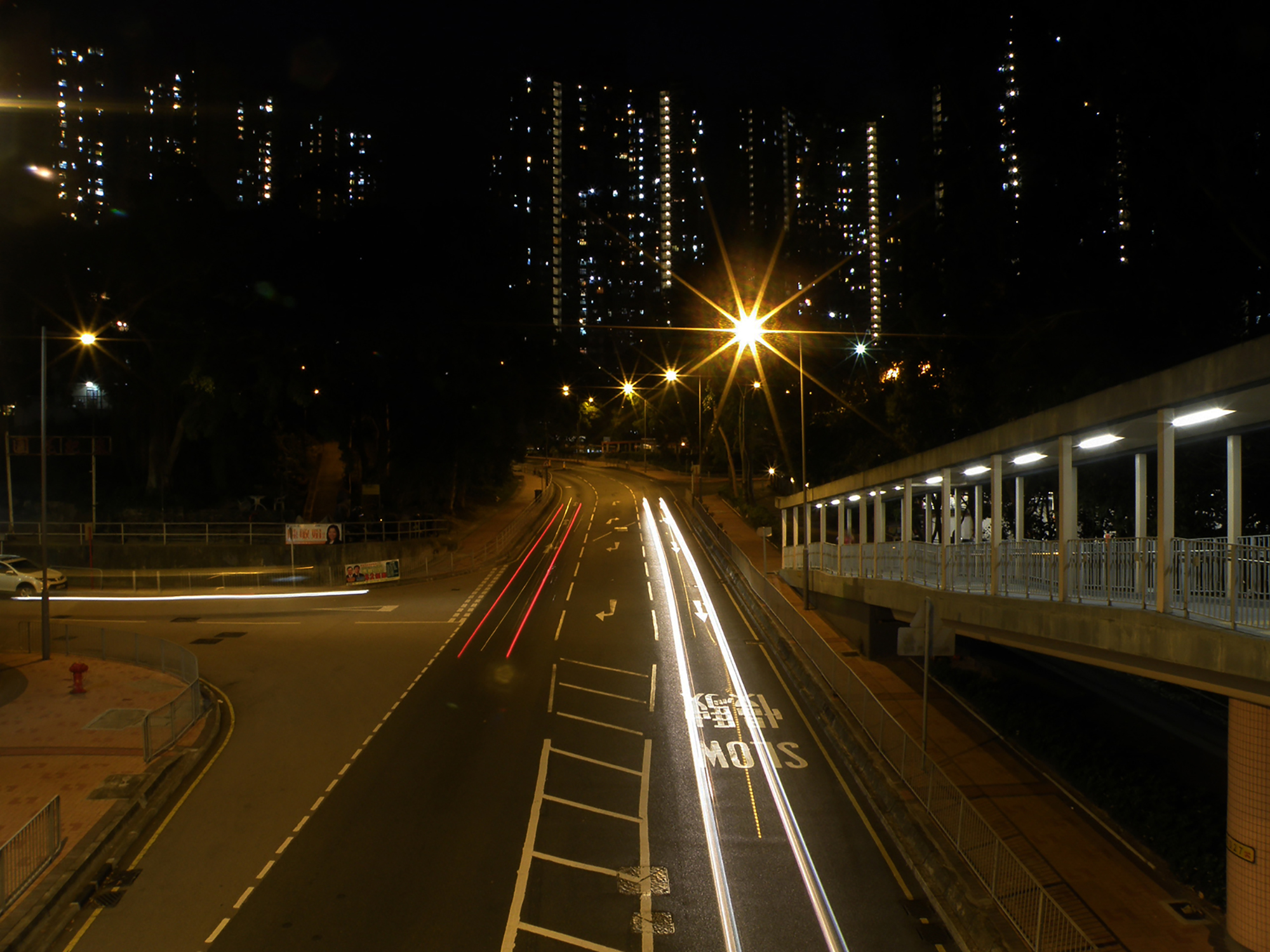 Siu Lek Yuen Road Siu Lek Yuen, Hong Kong.